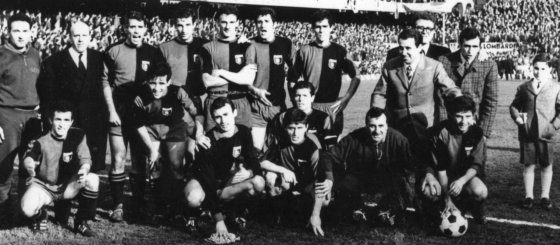 Genoa, Luigi Ferraris Stadium, June 29, 1962. Genoa C.F.C. poses after the triumph in the 1962 Cup of the Alps, at the end of the victorious final versus F.C. Grenoble (1-0).